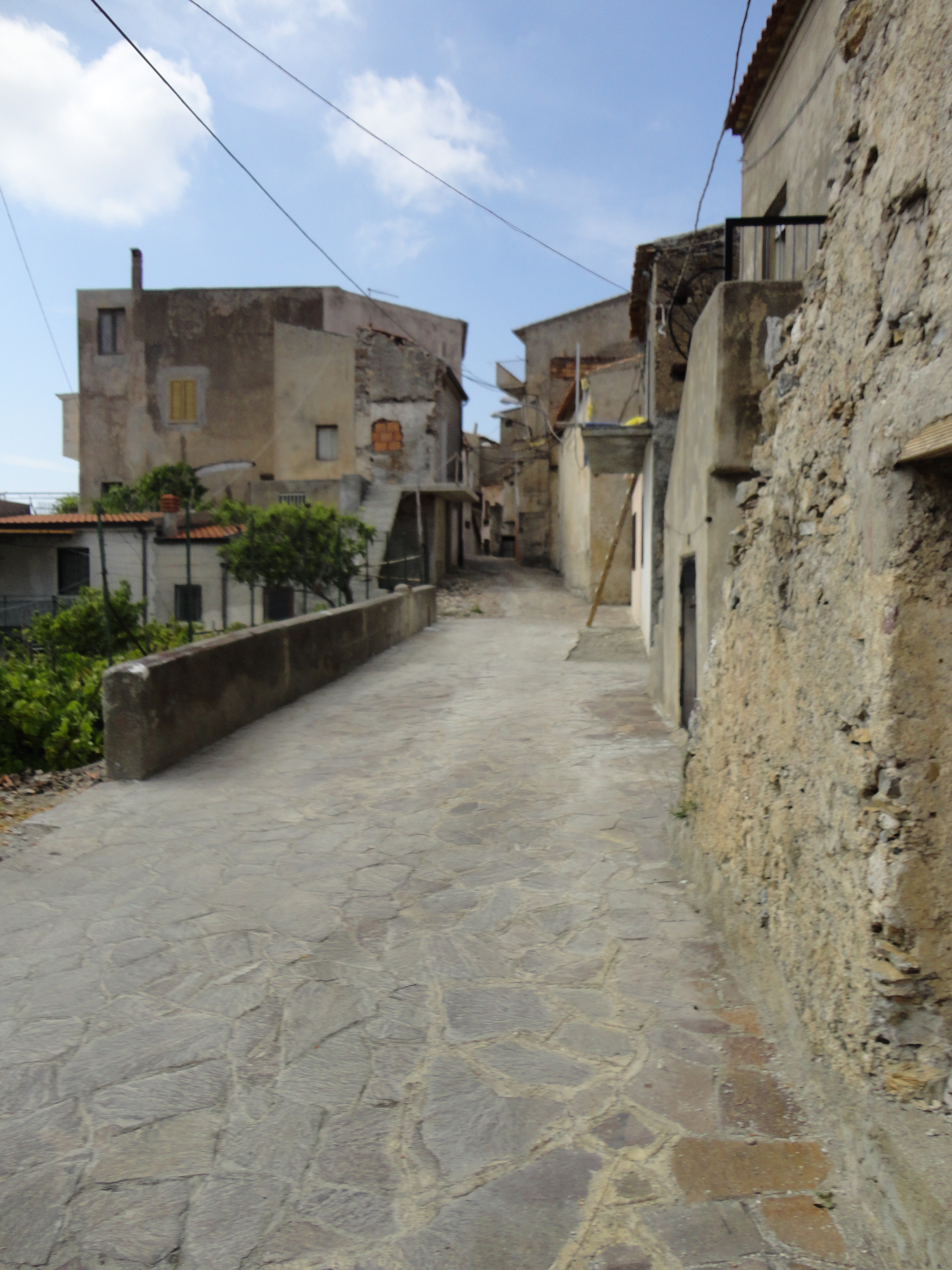 GRISOLIA